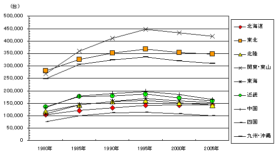 A graph of the numbers of tractors in Japan 1980-2005